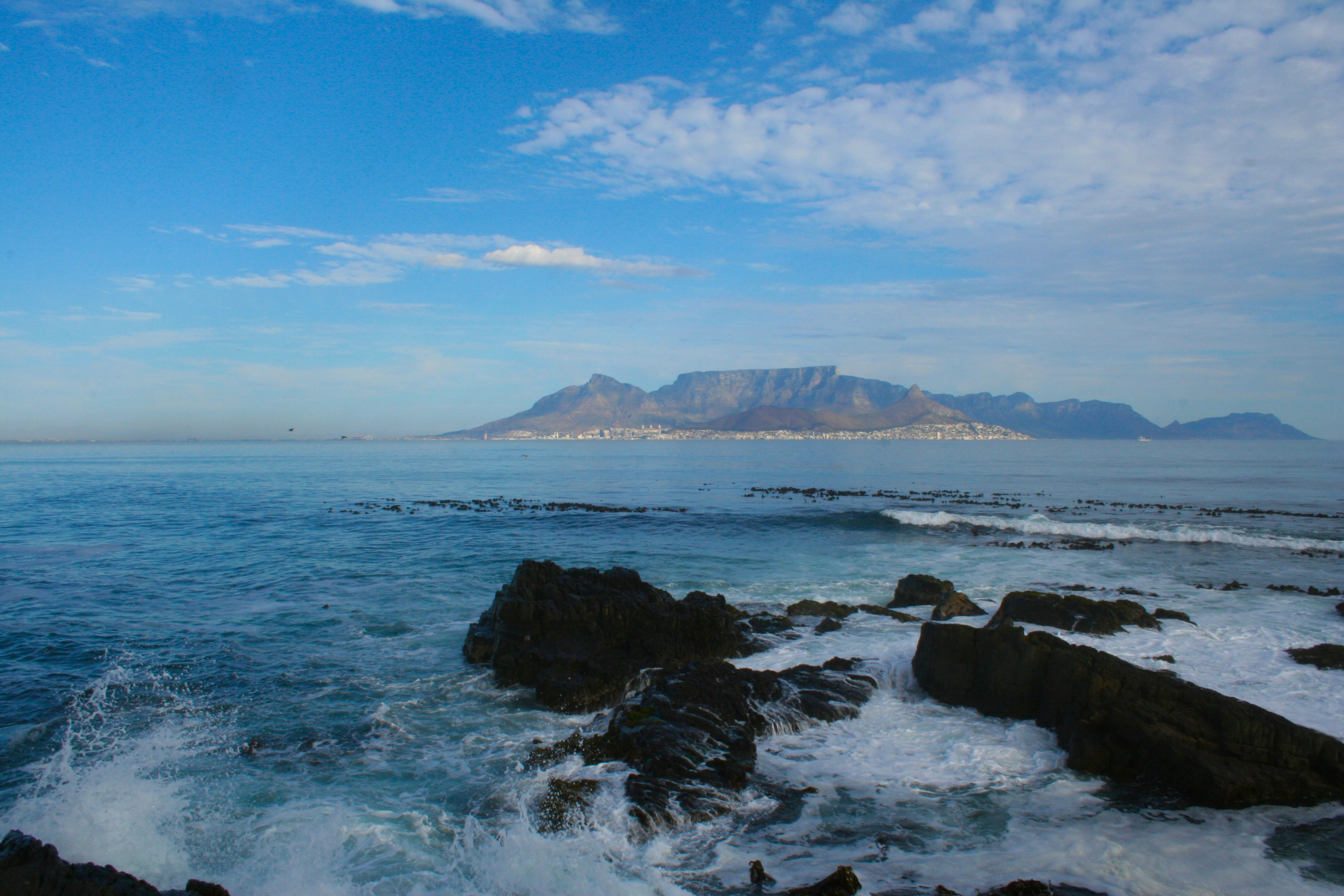 Cape Town from Robben Island